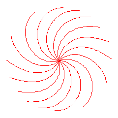 This figure depicts the inspiral of null geodesics into an event on the symmetry axis r = 0 {\displaystyle r=0} in a "cylindrical" chart for the Goedel lambdadust solution, which is interpreted as a "lag" due to the rotation of nearby dust particles.